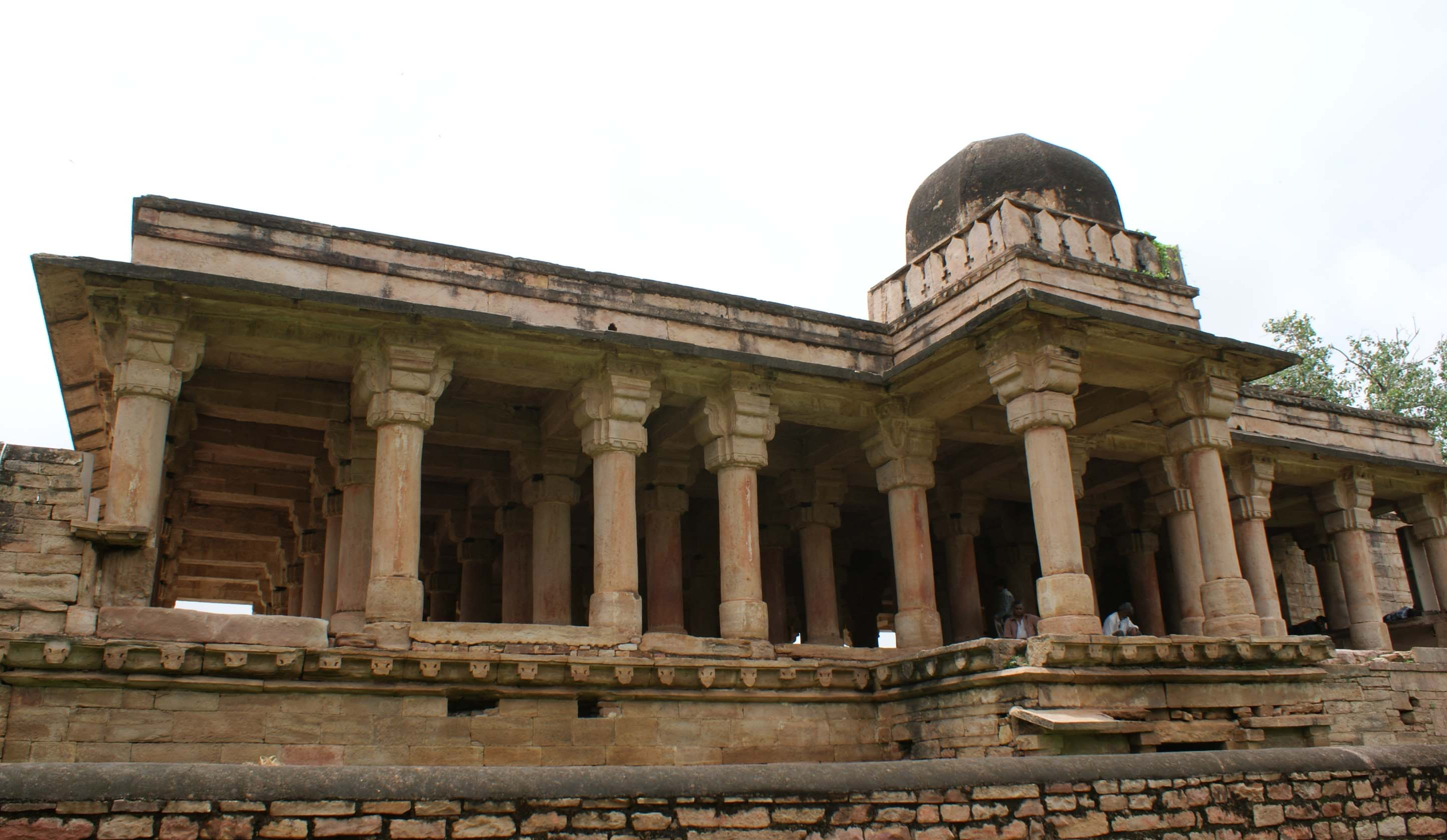 Gwalior, public audiences room at side of Man Singh Palace